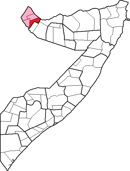 Location of the Baki district in the Awdal region, Somalia. Boundaries reflect those endorsed by the Republic of Somalia in 1986.